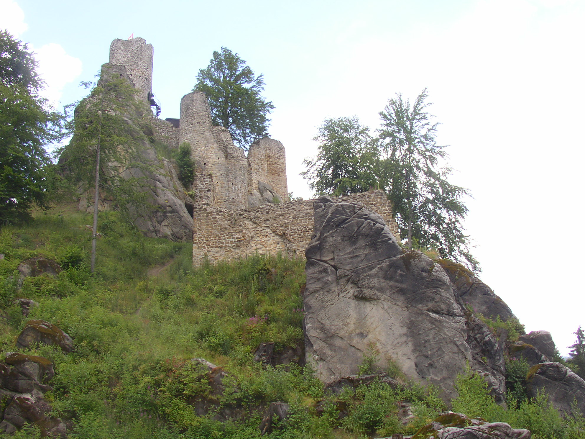 Frýdštejn castle, 8 km south of Jablonec nad Nisou, Czech Republic view from south photo taken by Miaow Miaow in July 2004